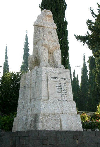 Joseph Trumpeldor's Monument (also Known as "The Roaring Lion", 1926-1934) by Abraham Melnikov, Tel Hai.